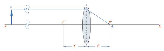 Object: Description: Author: Panther, uploaded here by Maksim Created: 12 Feb 2005 Source: Drawn by Panther using Corel Draw!